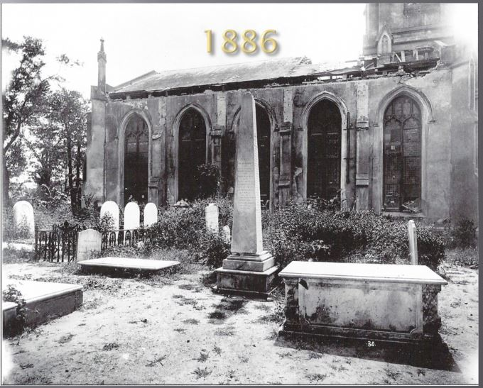 This photo originally misidentified the church as the St. Johns Lutheran church. The monument and graves in the foreground are in the St. Johns churchyard but the church in the background in the Unitarian Church in Charleston.